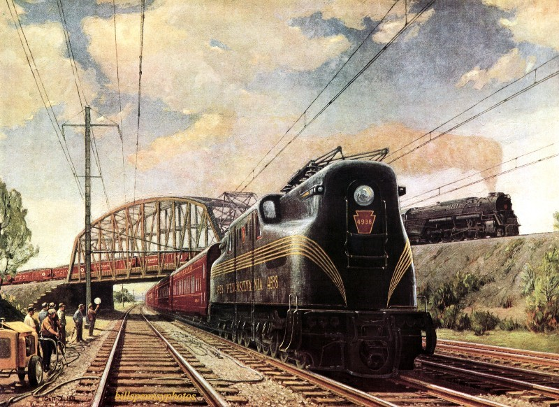 Main Lines—Freight and Passenger, Griffith Teller's illustration for the 1949 Pennsylvania Railroad calendar. A westbound passenger train hauled by a GG1 on the PRR's four-track Main Line passes under a freight hauled by a J1 on the low-grade freight line crossing the Whitford Flyover.